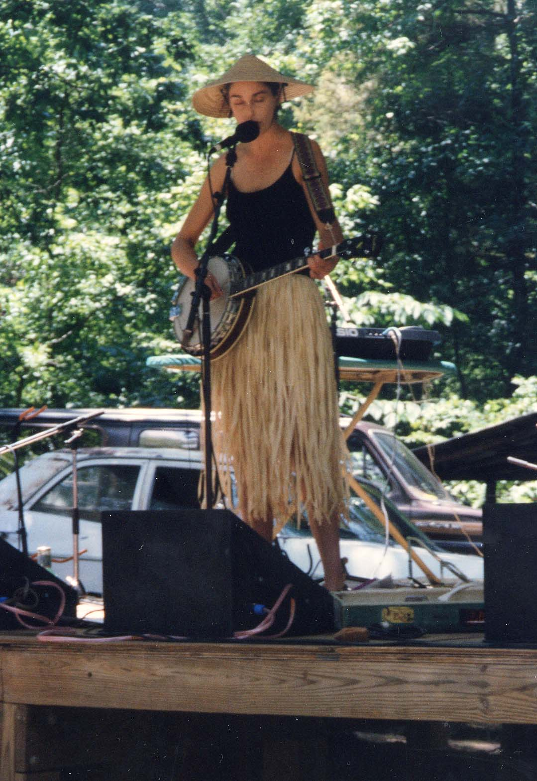 Melissa Swingle of Trailer Bride. Festival for the Eno, July 2001. Notice the keyboard behind her sits on an ironing board.